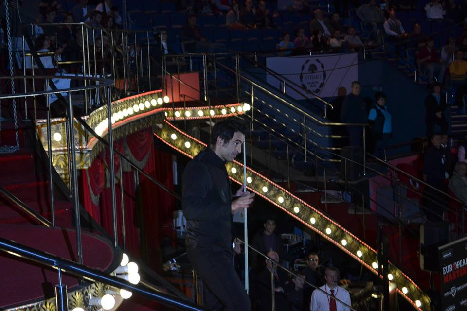 Entrance of Ronnie O'Sullivan in the final of the 2016 European Masters in Bucharest, Romania